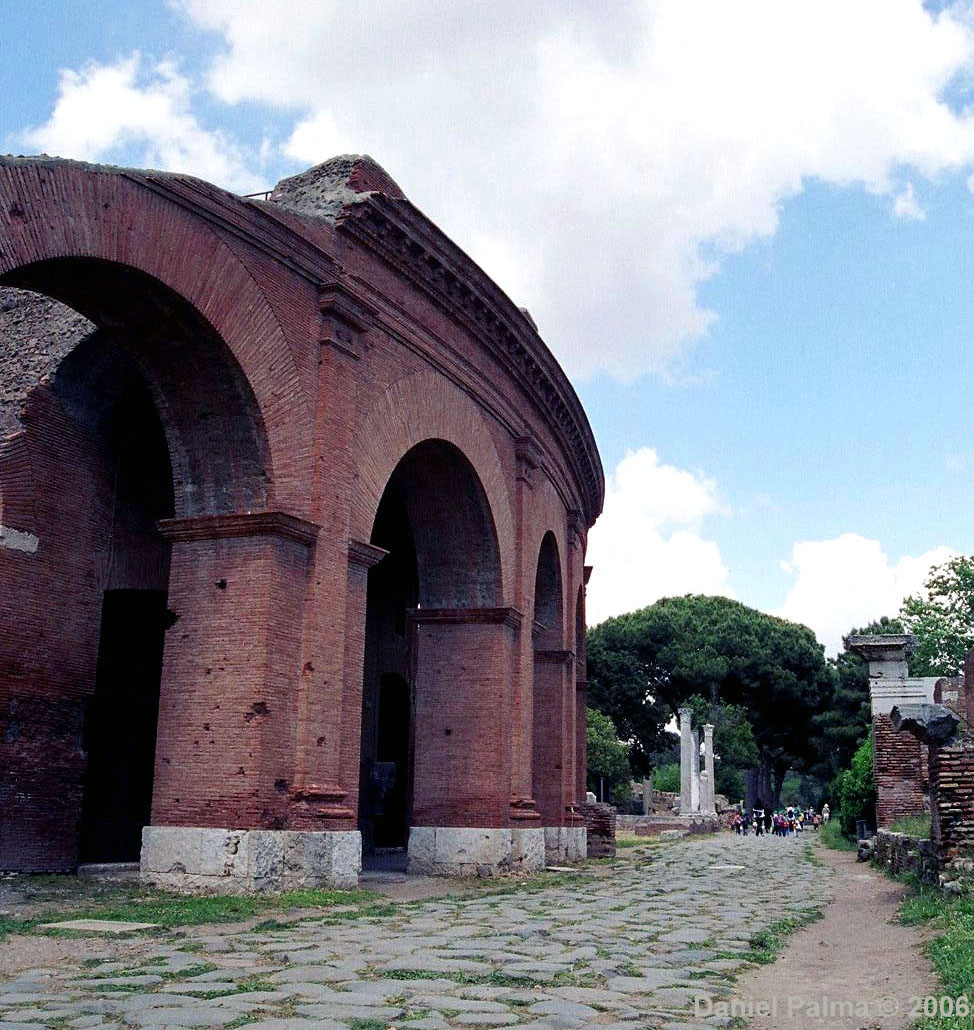 View of the west side of the theater (regio II, insula VII) as seen from the Decumanus Maximus. Ostia Antica, Rome, Italy.